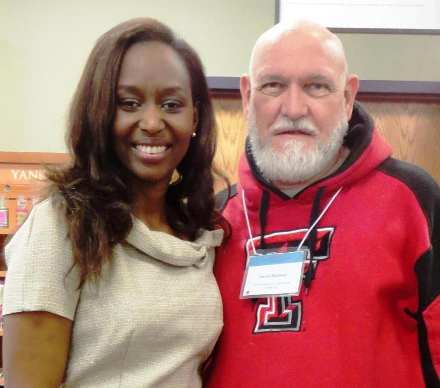 Immaculée Ilibagiza and Richard David Ramsey at Christian Scholars' Conference, Lipscomb University, 2012 June.